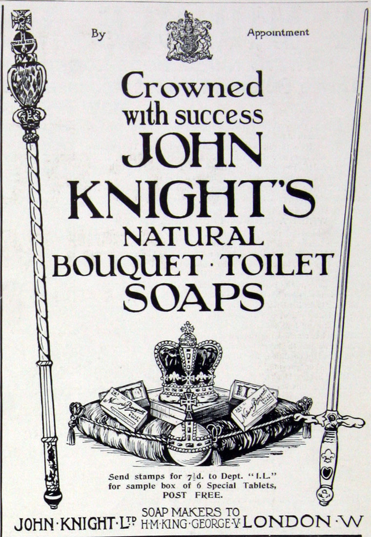 Crowned with success John Knight's natural bouquet toilet soaps. John Knight Ltd of London, Soap Makers to King George V.